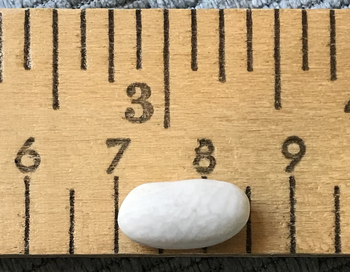 Dried sorana bean on a ruler showing inches and centimeters